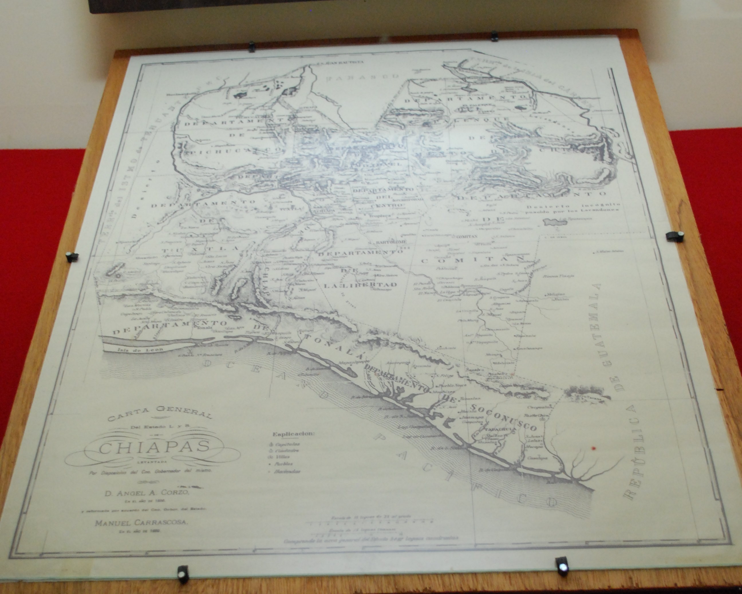 1856 map of Chiapas on display at the Regional Museum in Tuxtla Gutierrez, Chiapas, Mexico